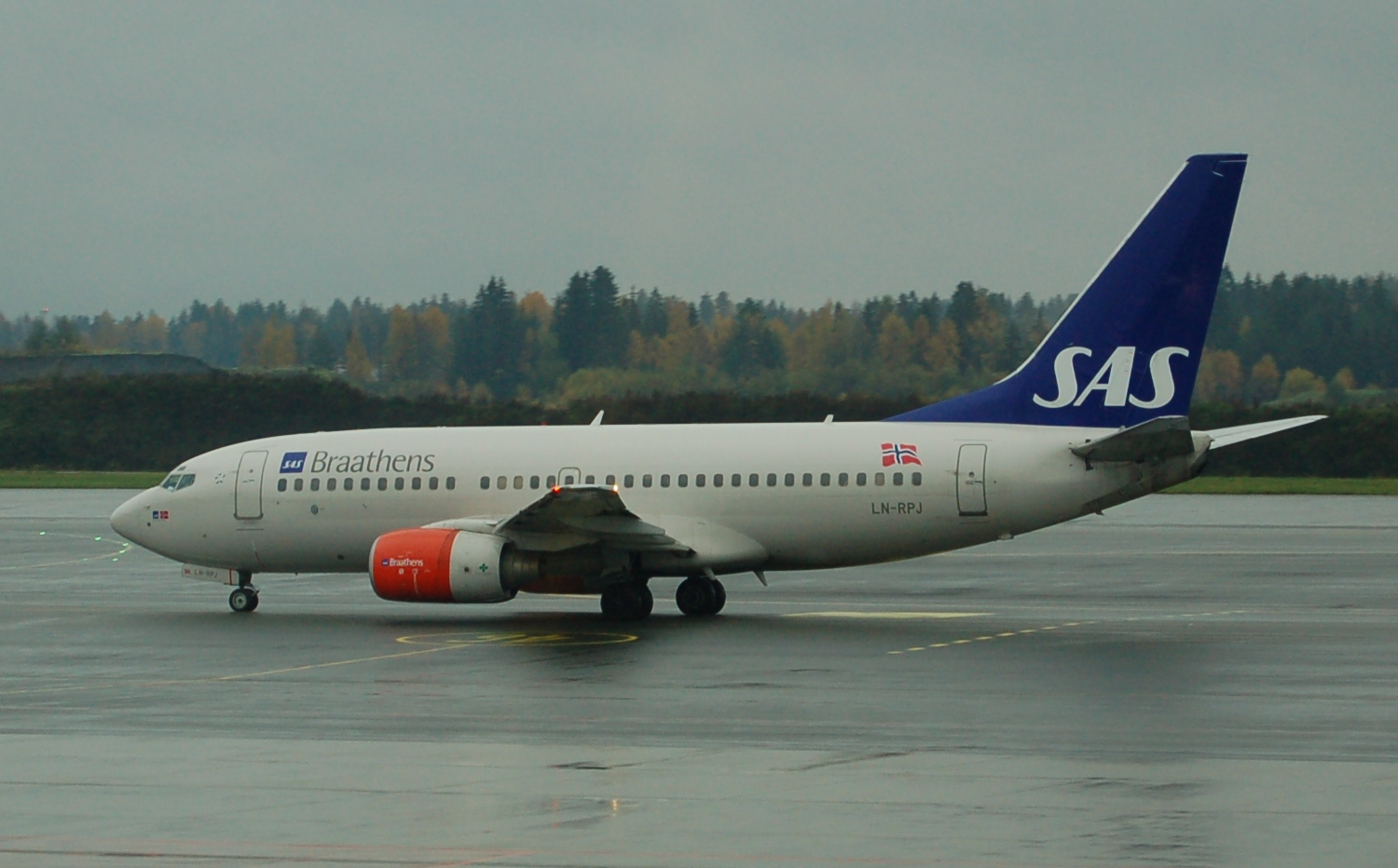 SAS Braathens Boeing 737-700 LN-RPJ at Oslo Airport, Gardermoen